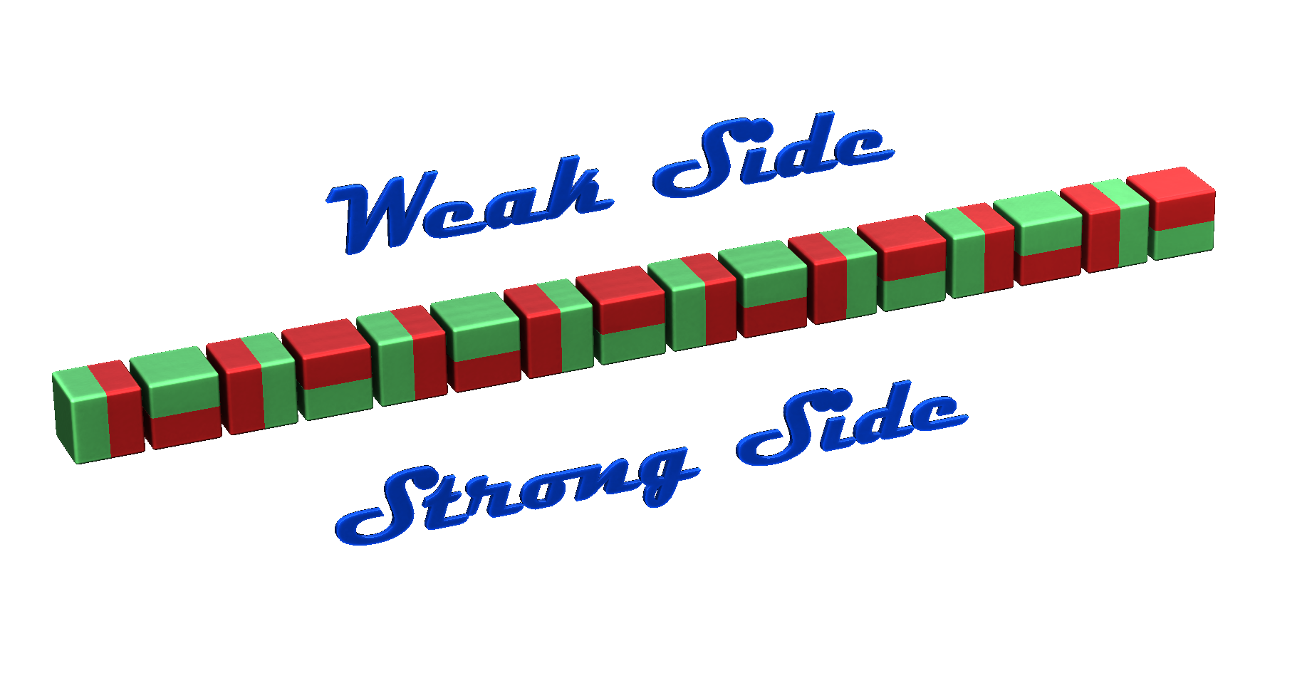 Orientation of strong and weak side in a linear Halbach array (Weak side up)